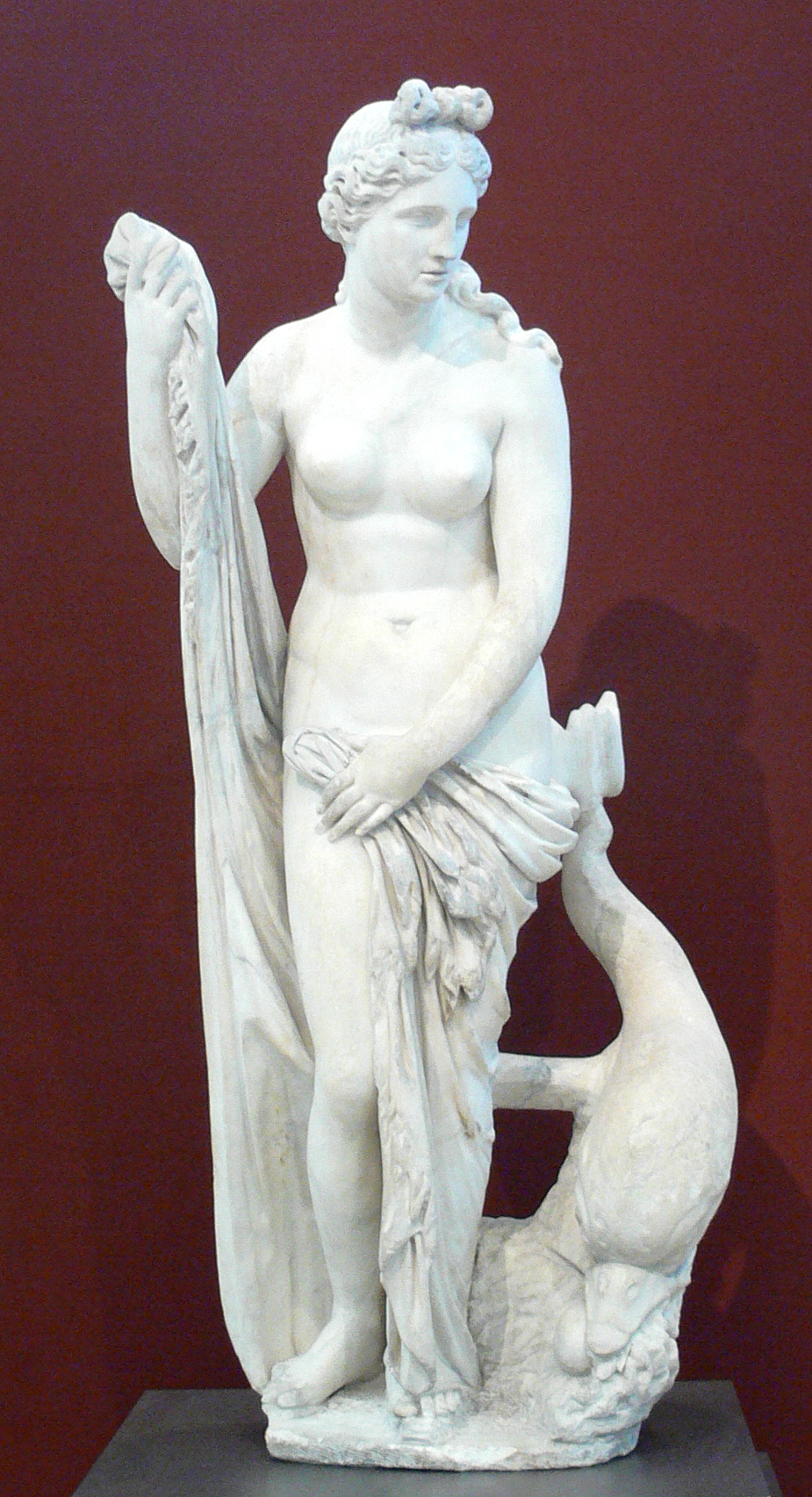 "Venus, the goddess of love, stands nude, grasping a piece of cloth around her hips. The dolphin at her feet supports the figure and alludes to the goddess's birth from the sea. This depiction of Venus ultimately derived from an extremely popular Greek statue created by the sculptor Praxiteles about 350 B.C. Indeed Praxiteles' statue was so popular that, beginning around 100 B.C., many artists created variations on his theme of the naked Venus. This statue is a Roman reproduction of one of those Hellenistic variants. In 1509 it was discovered in Rome, where it contributed to the Renaissance revival of the Classical tradition. Scholars once believed that this statue was owned by Cardinal Mazarin, advisor to Louis XIV, king of France. Although this is unlikely, the statue is still known to many as the Mazarin Venus. During its long history, the statue has been heavily damaged. The breasts, as well as parts of the cloth, arms, and dolphin, are restored. The head probably belonged to another ancient statue. Marks on the back of the statue have been interpreted as gunshot wounds suffered during the French Revolution, although this story may be based more in romance than in fact."— J. Paul Getty Museum / CC-BY-4.0 , in